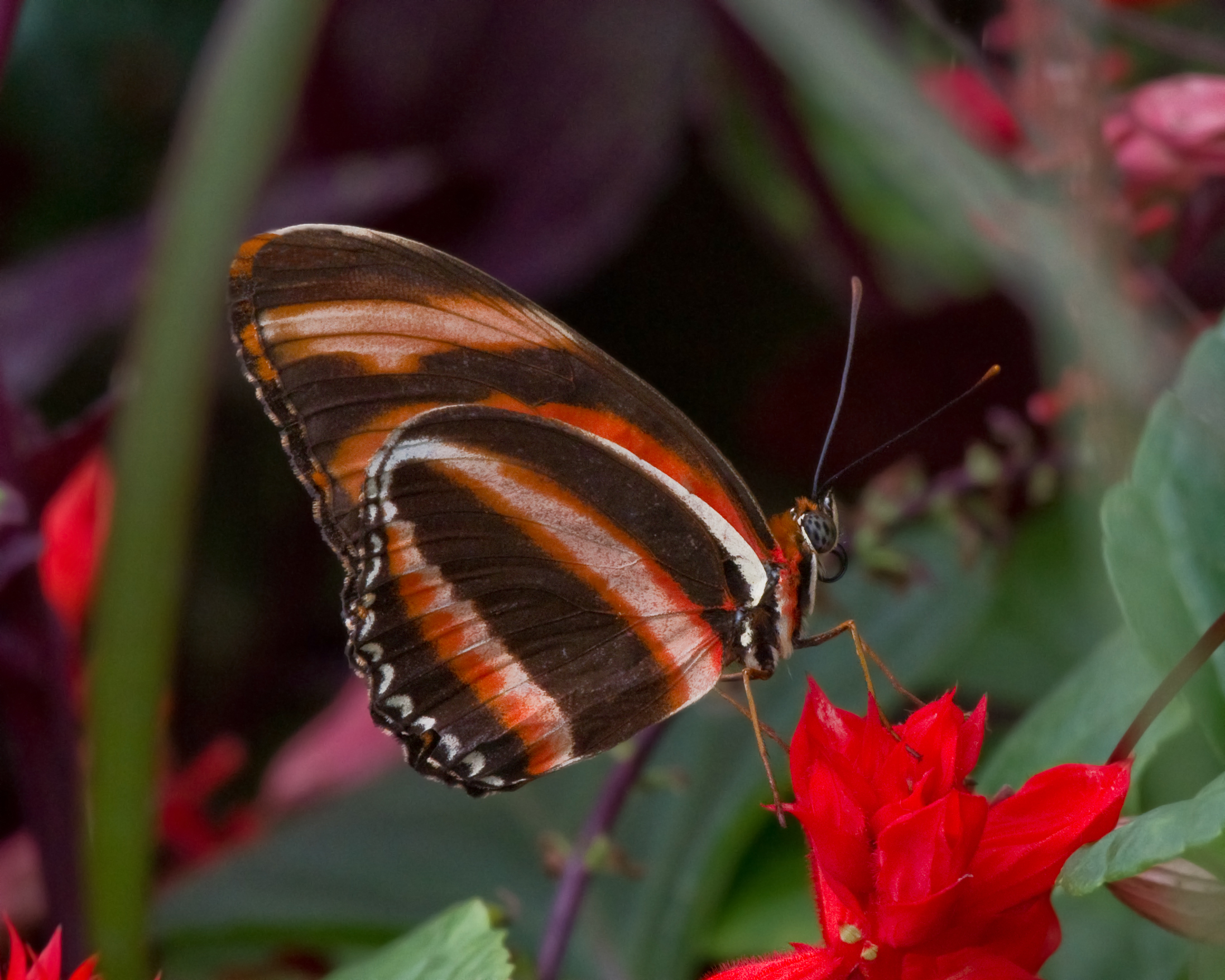 Ventral view of Banded Orange Heliconian